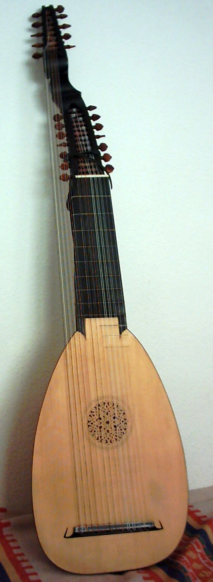 Swan-necked baroque lute